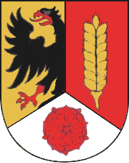 Coat of Arms of Heukewalde